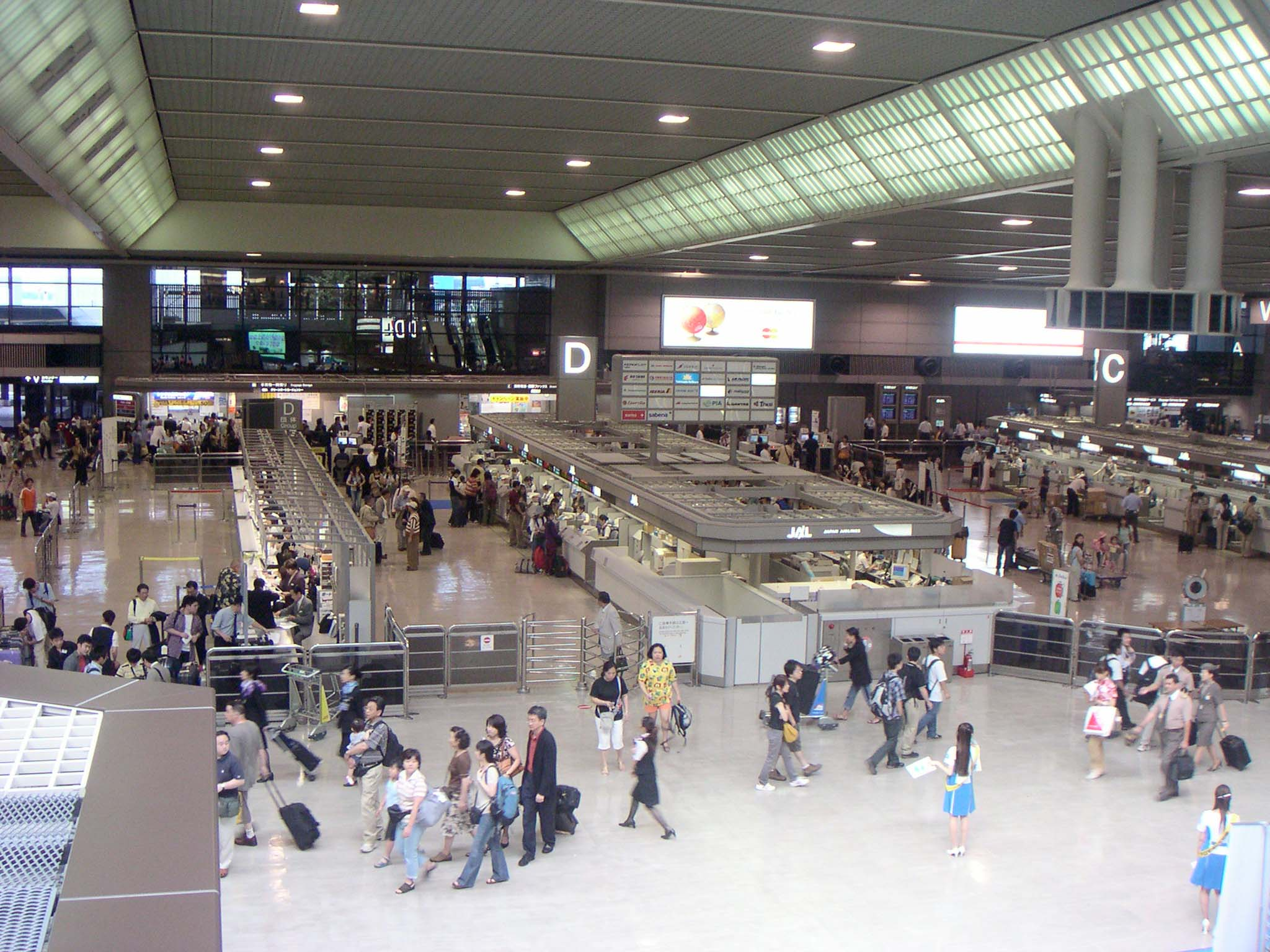 3rd floor of Narita International Airport Terminal 2